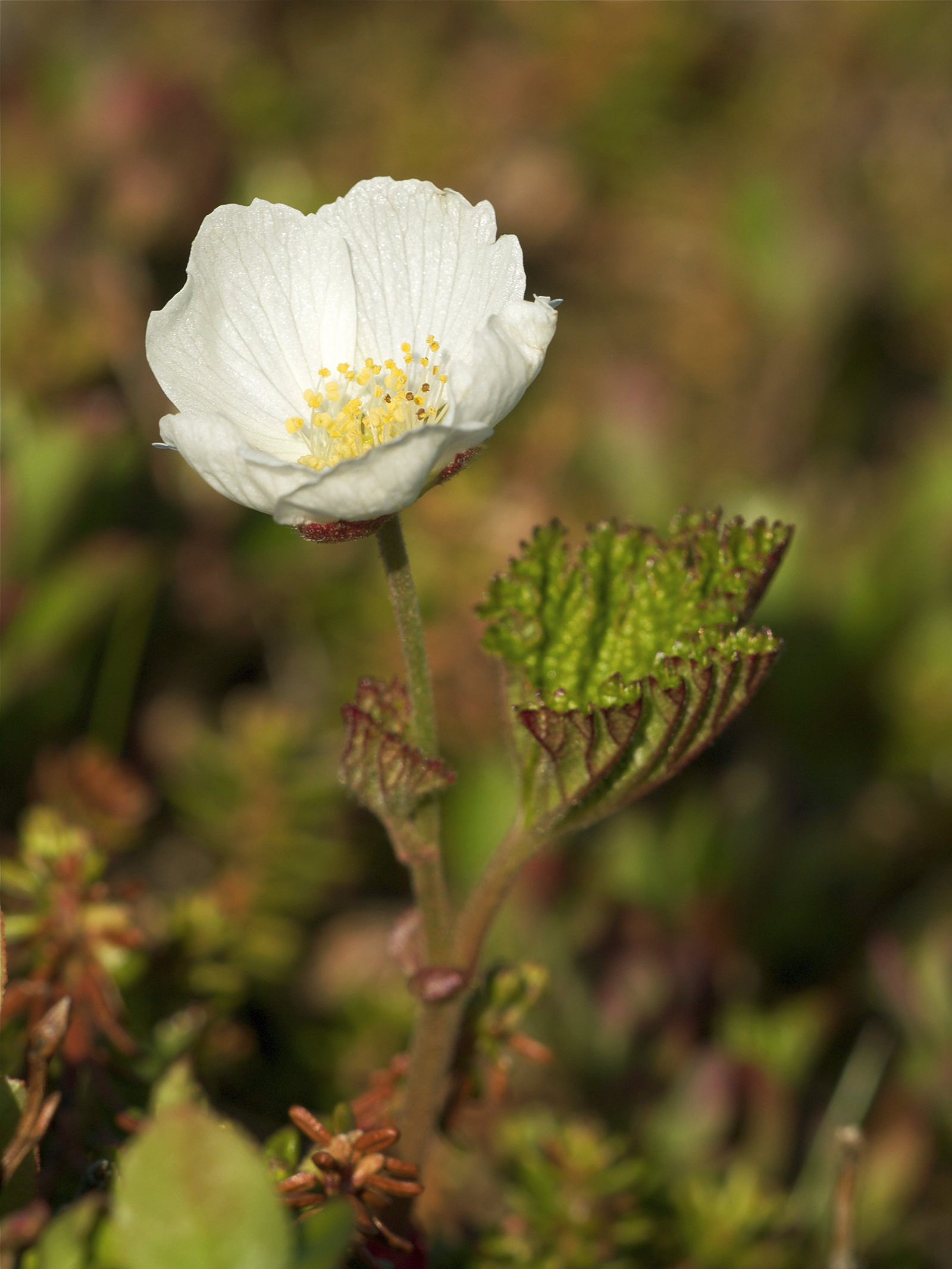 Male flowering Cloudberry (Rubus chamaemorus), Stø, Norway